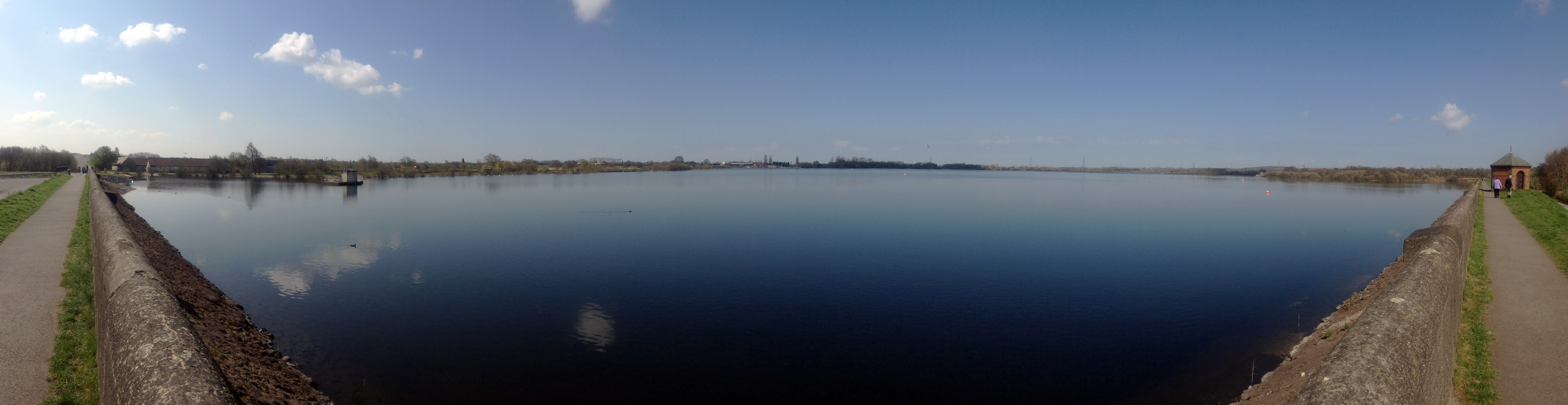 Panorama of Chasewater from the dam in May 2013.